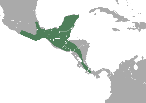 Cacomistle (Bassariscus sumichrasti) range